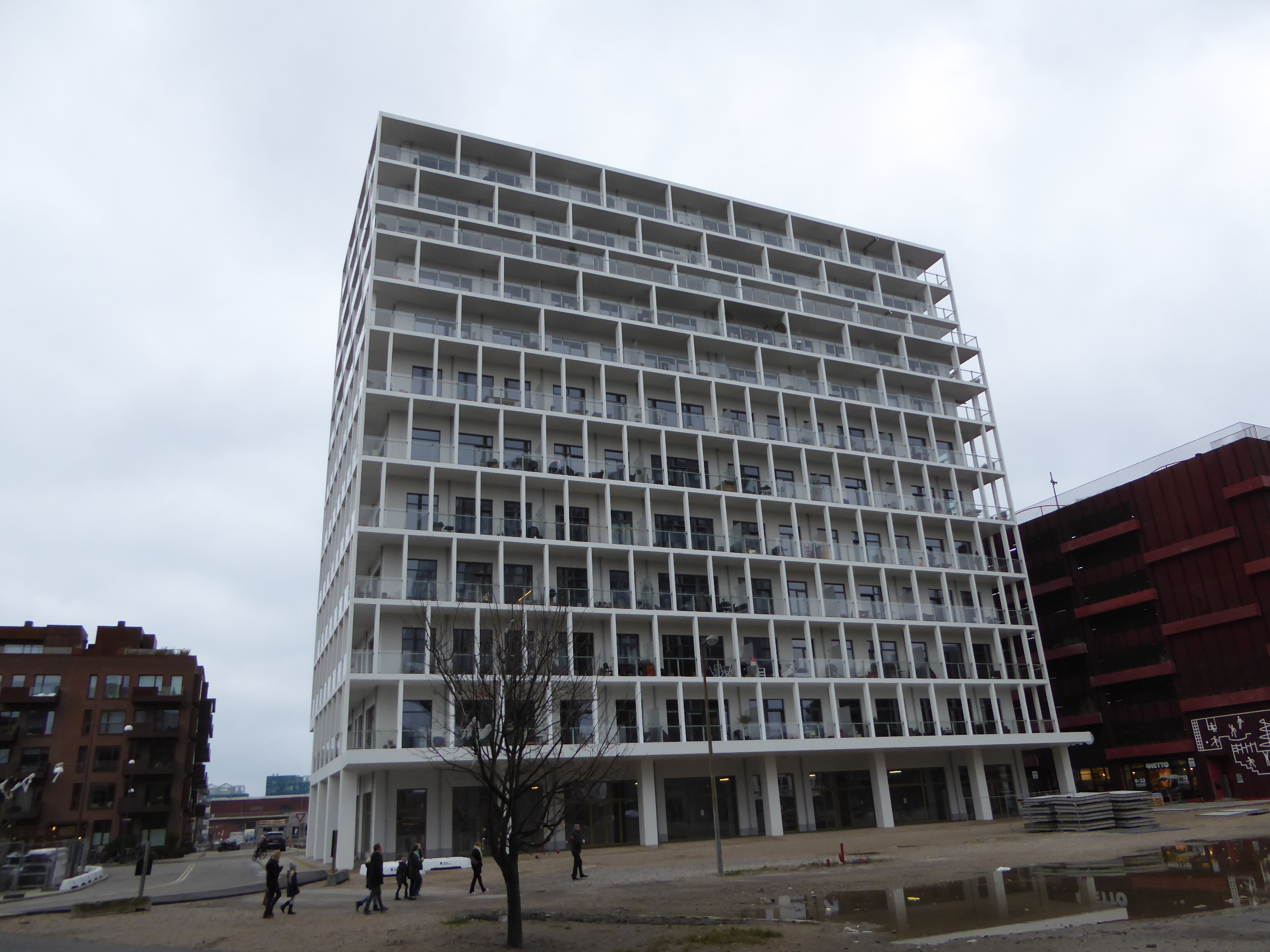 The apartment high-rise Frihavns Tårnet at Hamborg Plads in Nordhavn in Copenhagen.